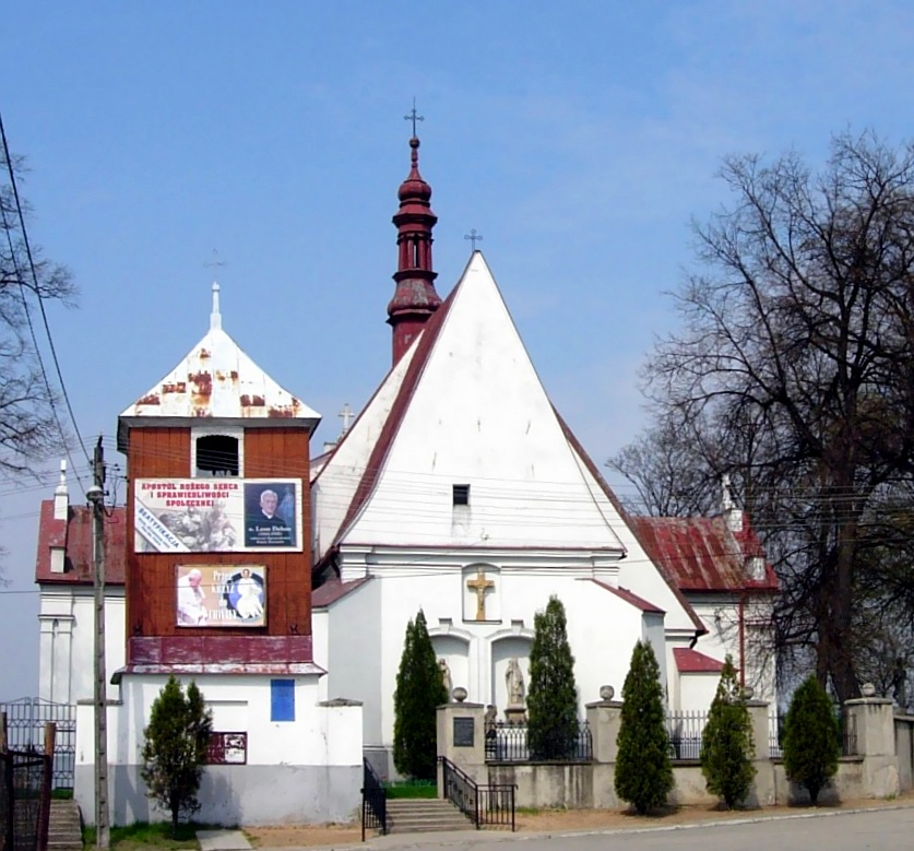 St. Stanislaus Church